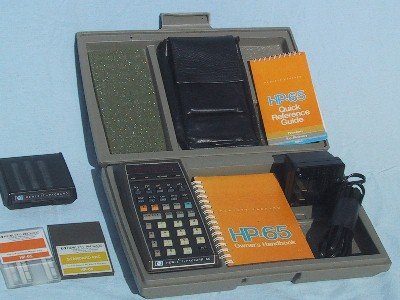 HP-65 calculator